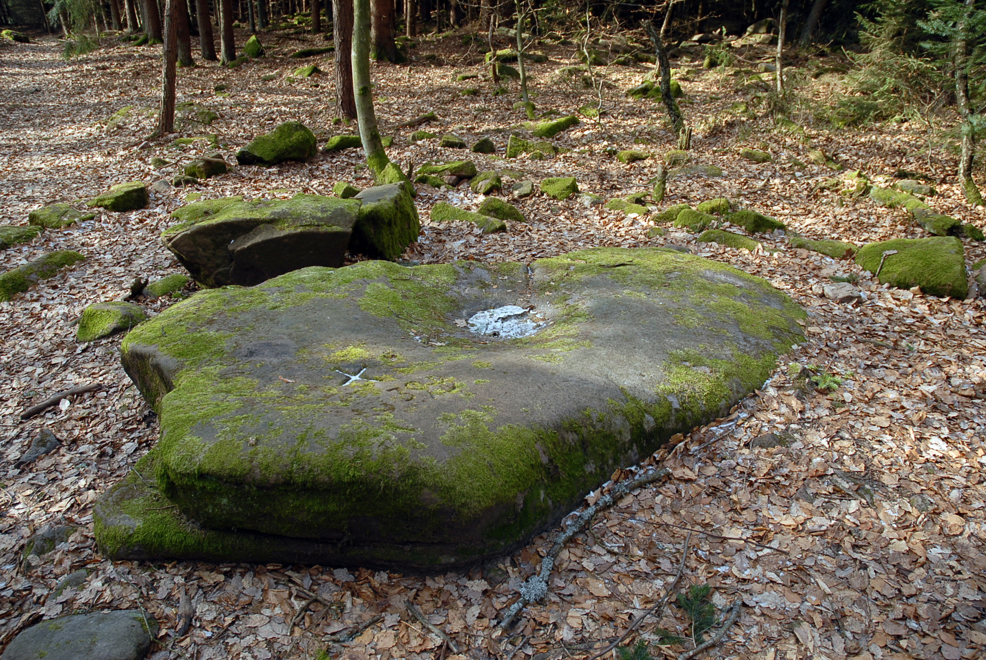 "Oblation bowl" on the Orensberg.